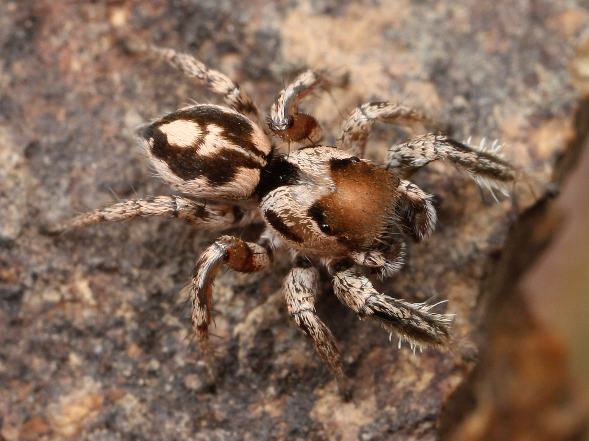 Adult male Habronattus dossenus jumping spider from the Santa Rita Mountains in Arizona